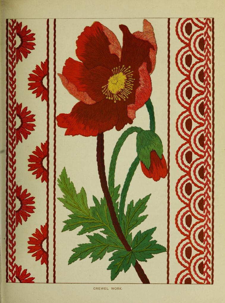 Caulfeild, S. F. A. (Sophia Frances Anne), from The dictionary of needlework